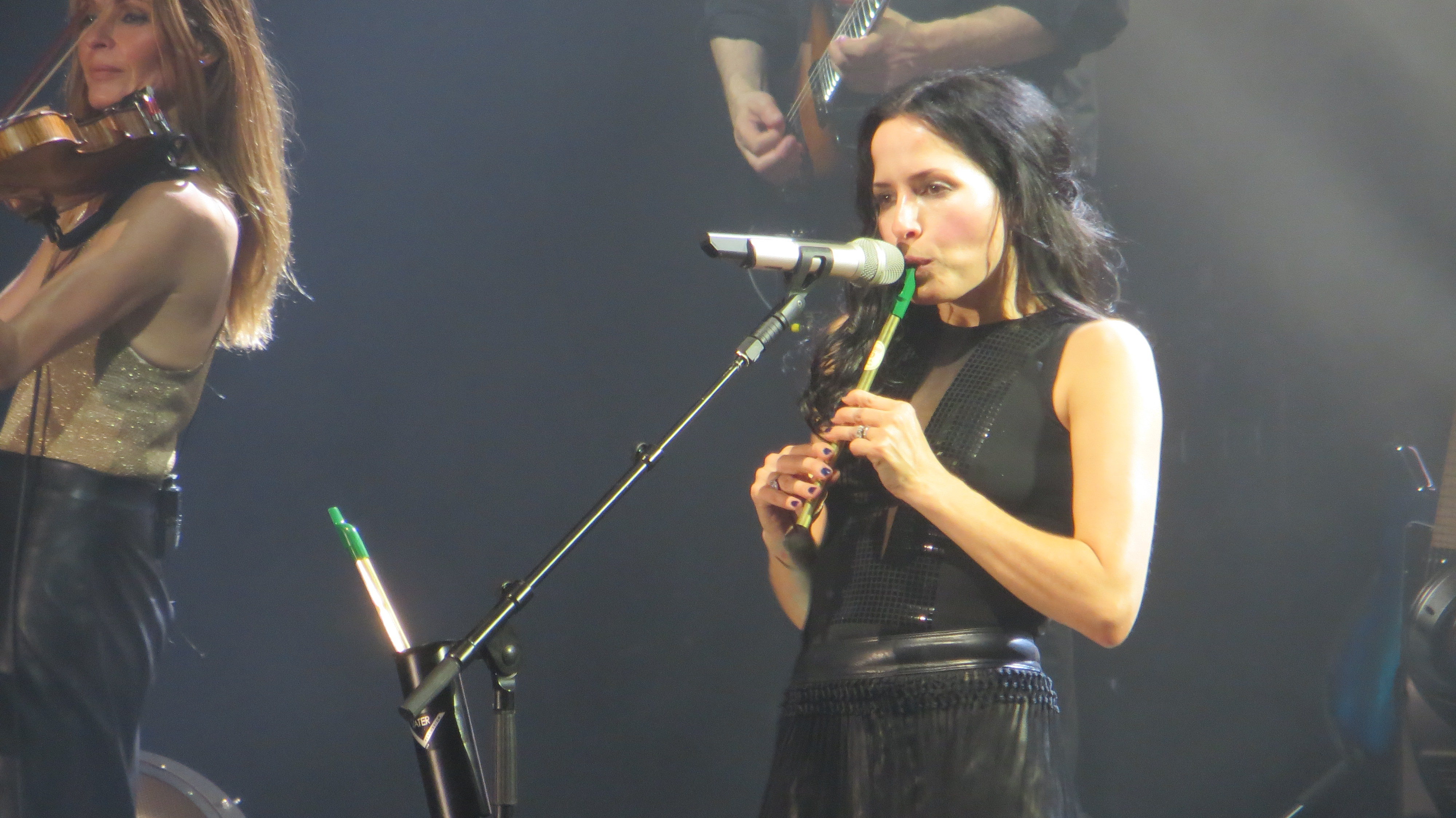 Andrea Corr in Vienna (Stadthalle, 2016)